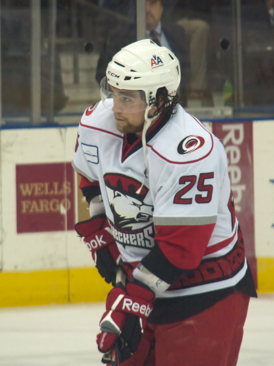 Chris Terry Charlotte Checkers jersey.